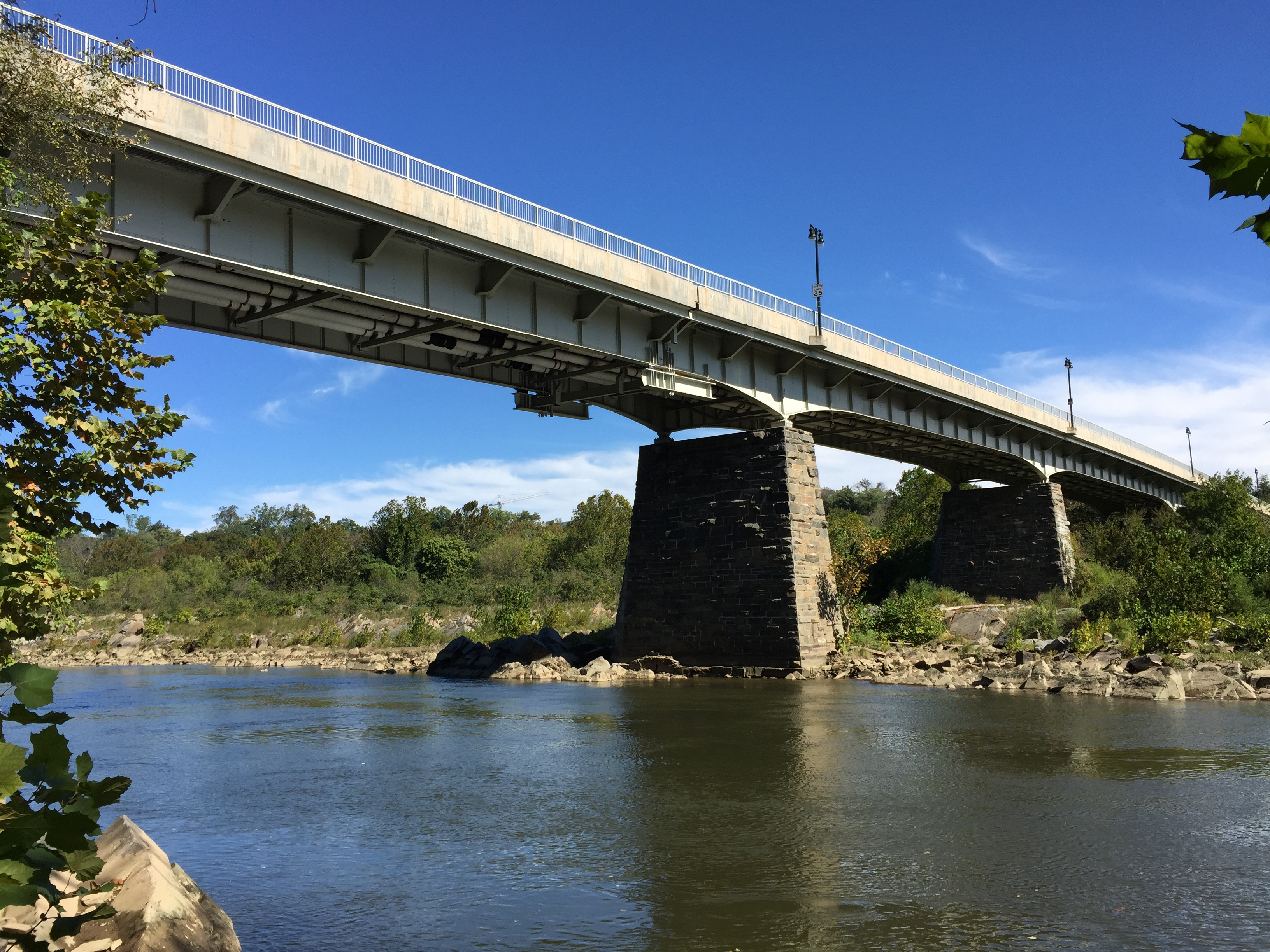 View northeast towards the Chain Bridge as it crosses the Potomac River between Arlington County, Virginia and Washington, D.C.